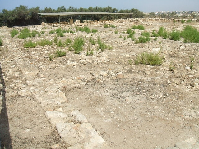 Camarina archaeological site : House of the Altar quarter